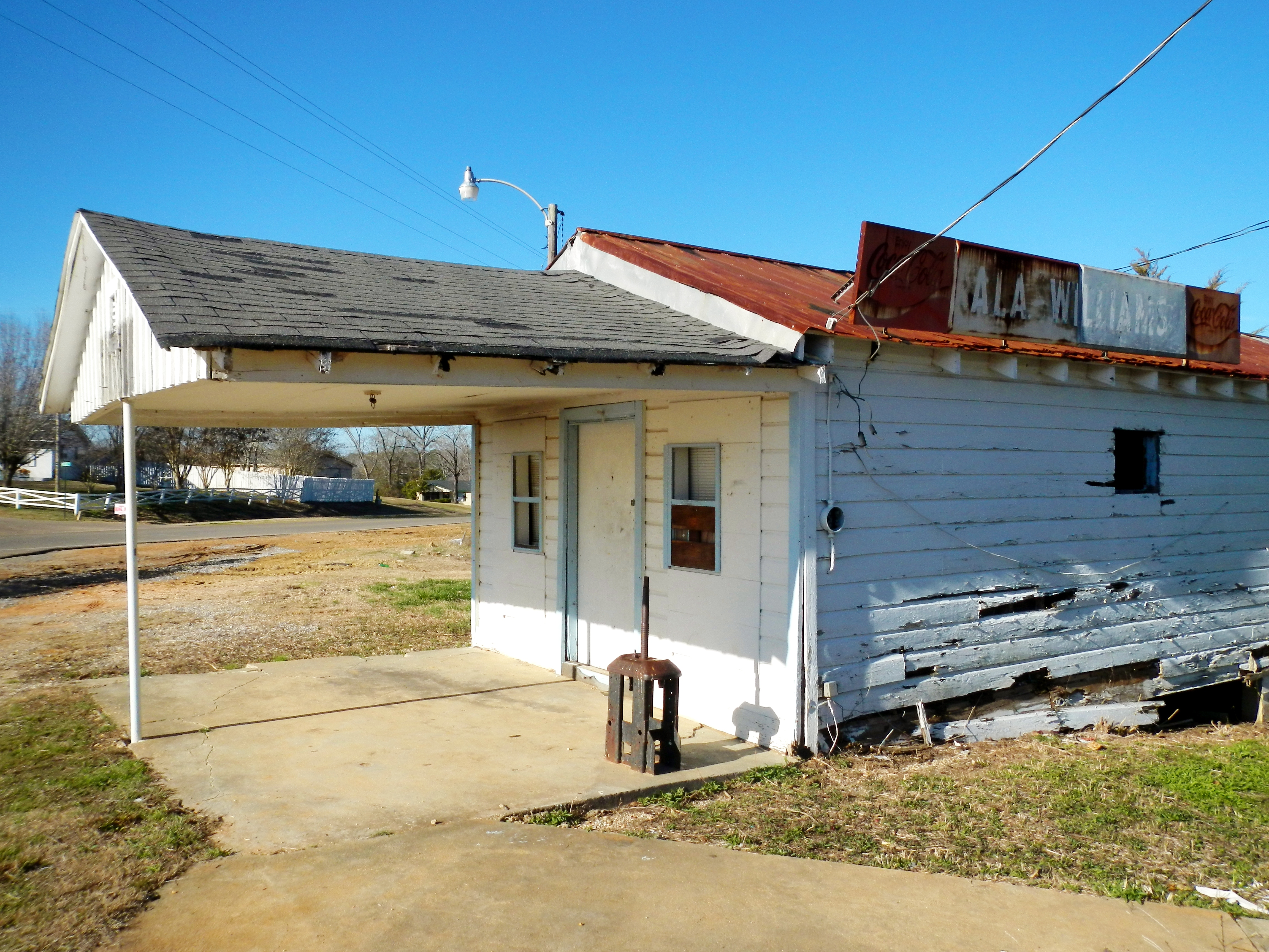 This is a photograph of the Ala. Williams store in Mosses, Alabama.